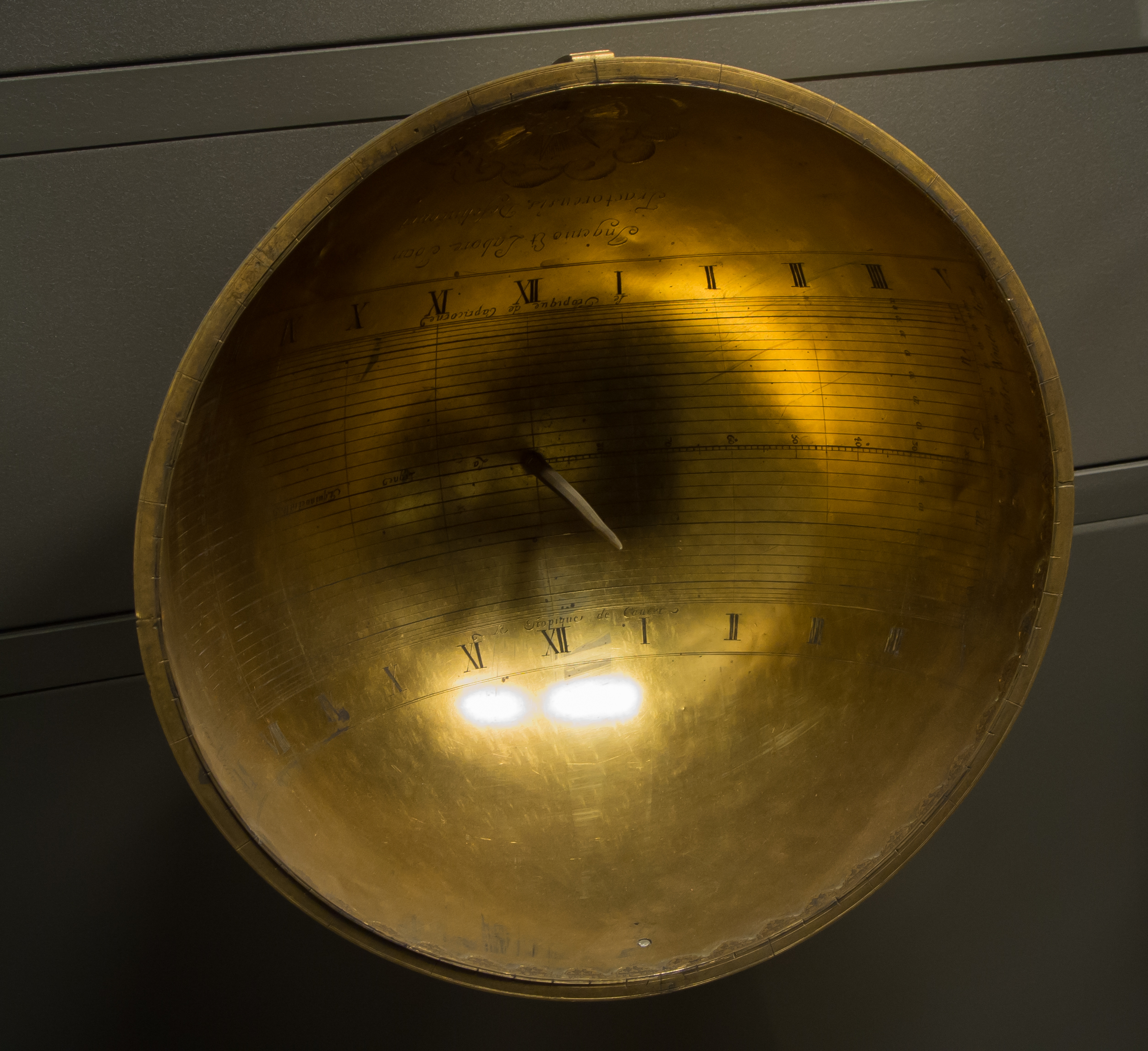 Equatorial Sundial late 17th century - Jean Desclincourt